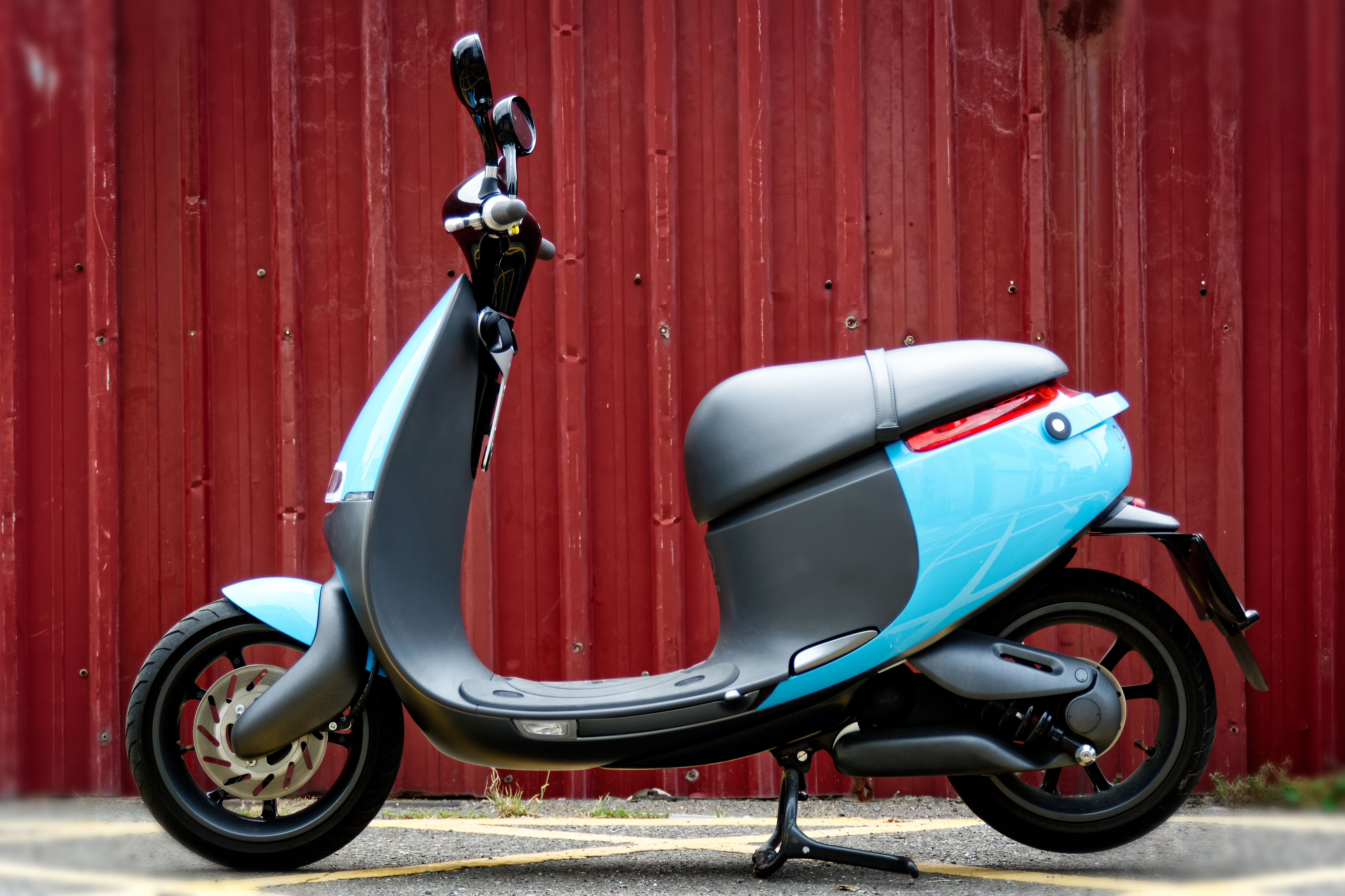 My own Gogoro 1 Plus Blue in Taiwan. This photo is taken by me.